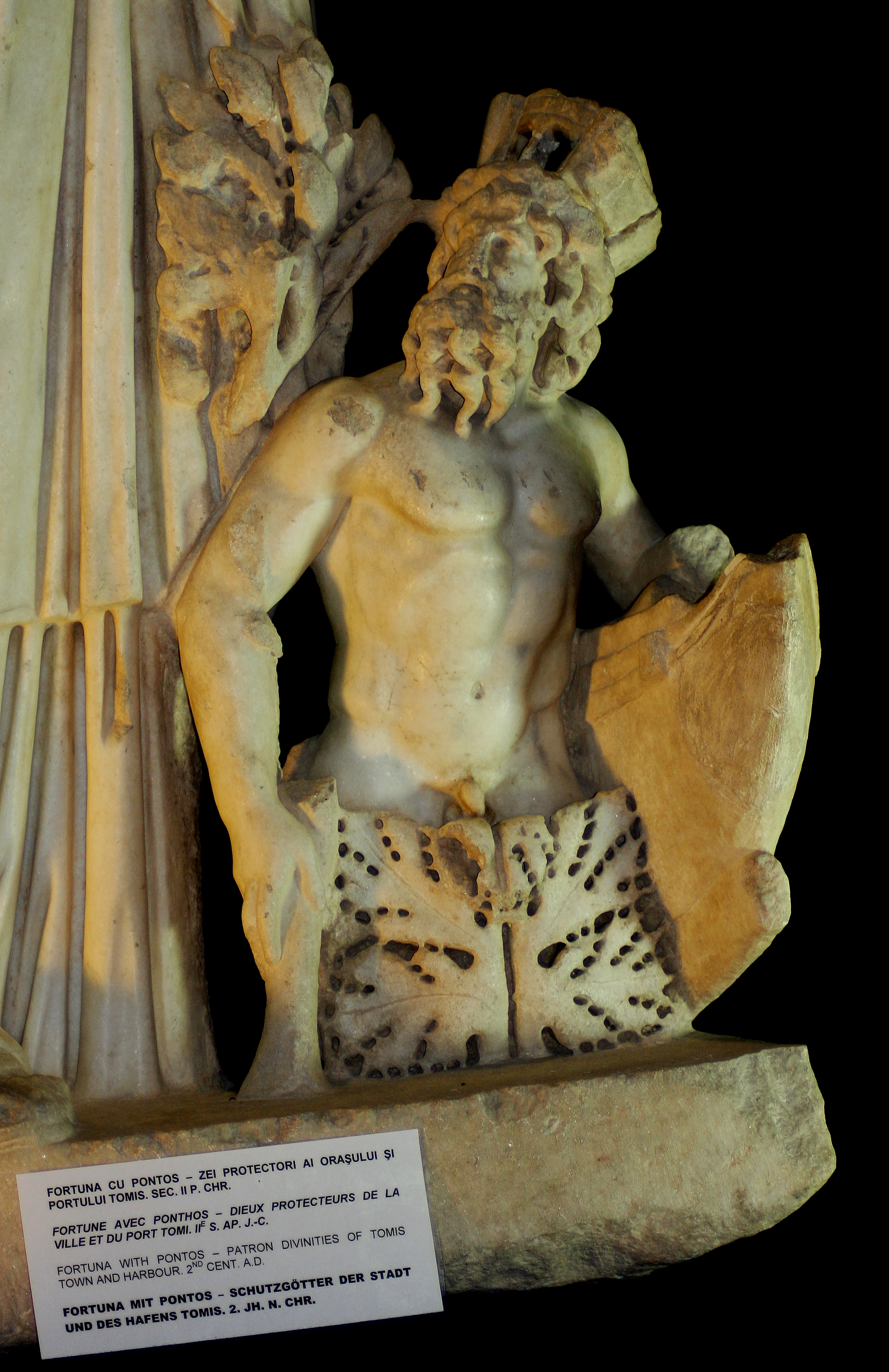 Depiction of Pontos Constanta Museum